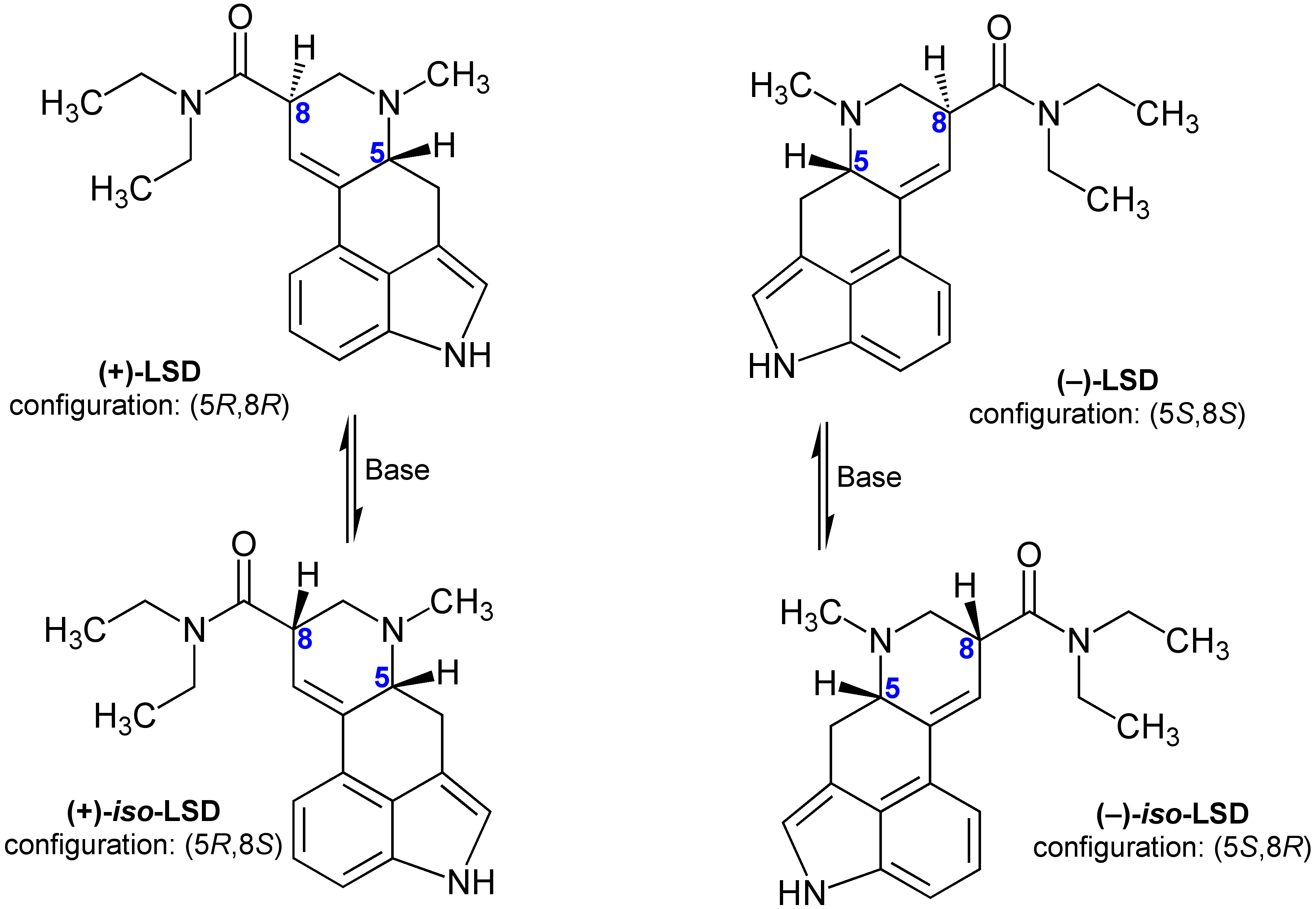 ENGLISH version of "Lysergide_stereoisomers_structural_formulae_v.1.png"